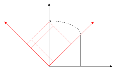 simple rotation around the source of the coordinate system